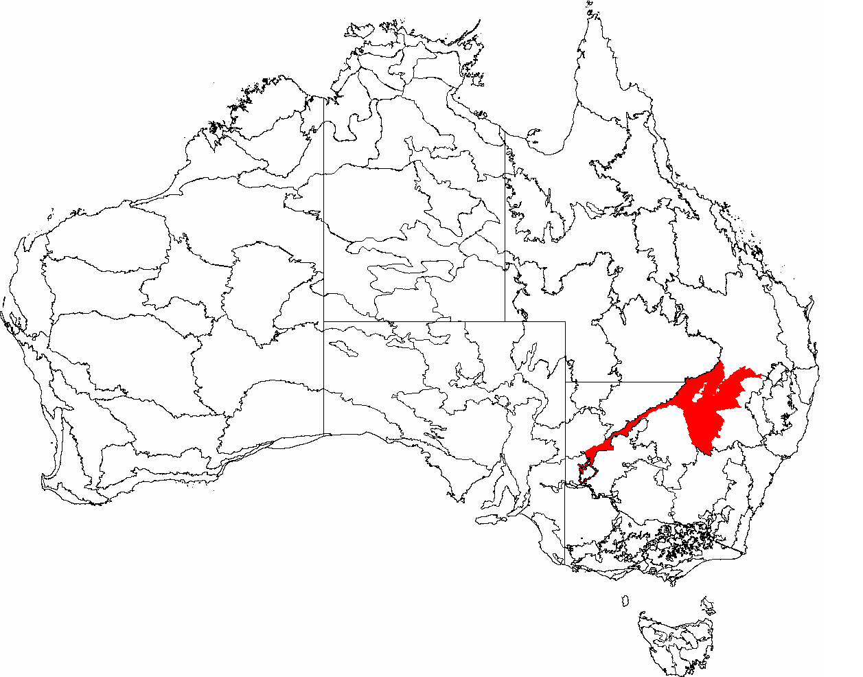 This is a map of the Interim Biogeographic Regionalisation of Australia (IBRA), with state boundaries overlaid. The Darling Riverine Plains region is shown in red.